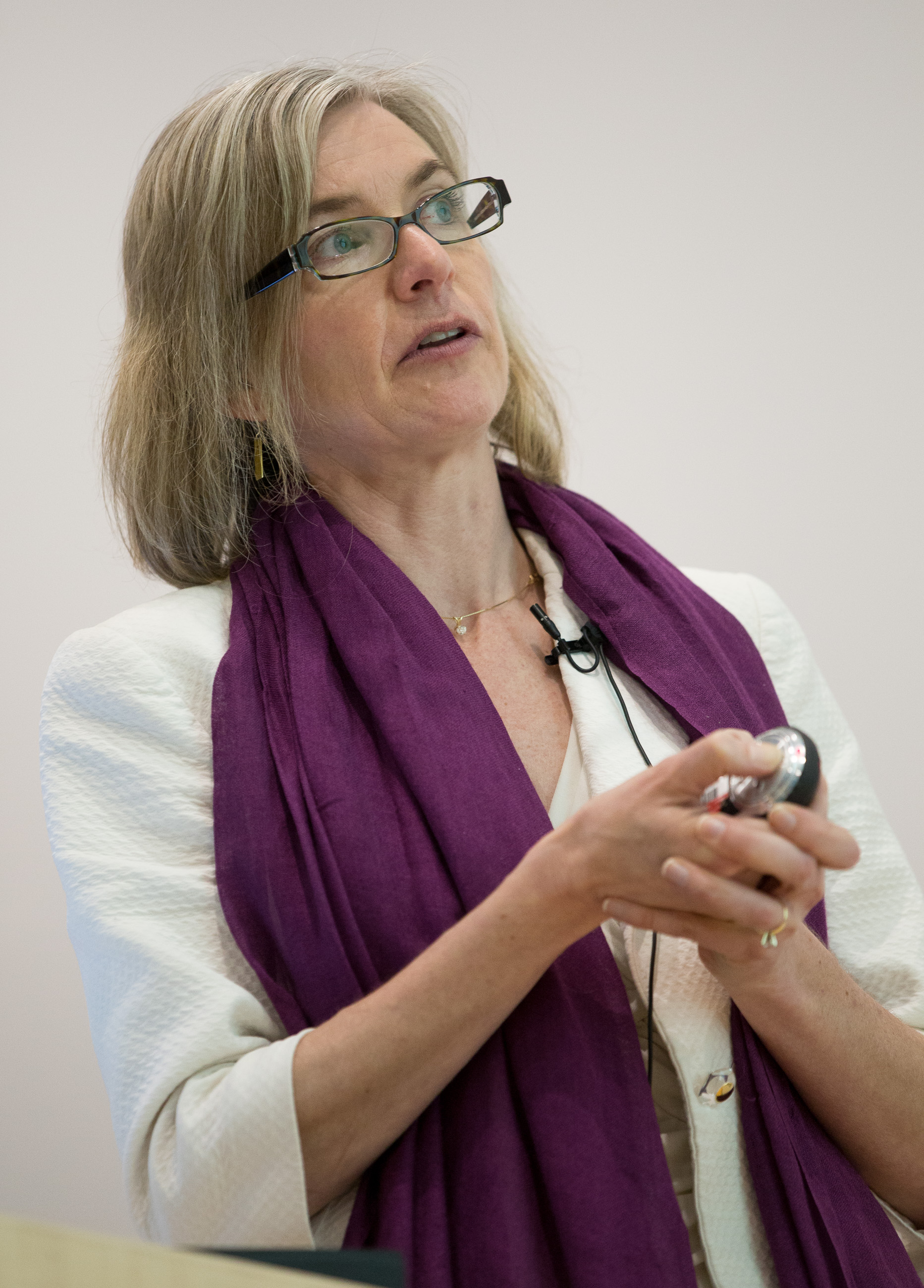 Jennifer Doudna is a Professor of Chemistry and of Molecular and Cell Biology at the University of California, Berkeley.